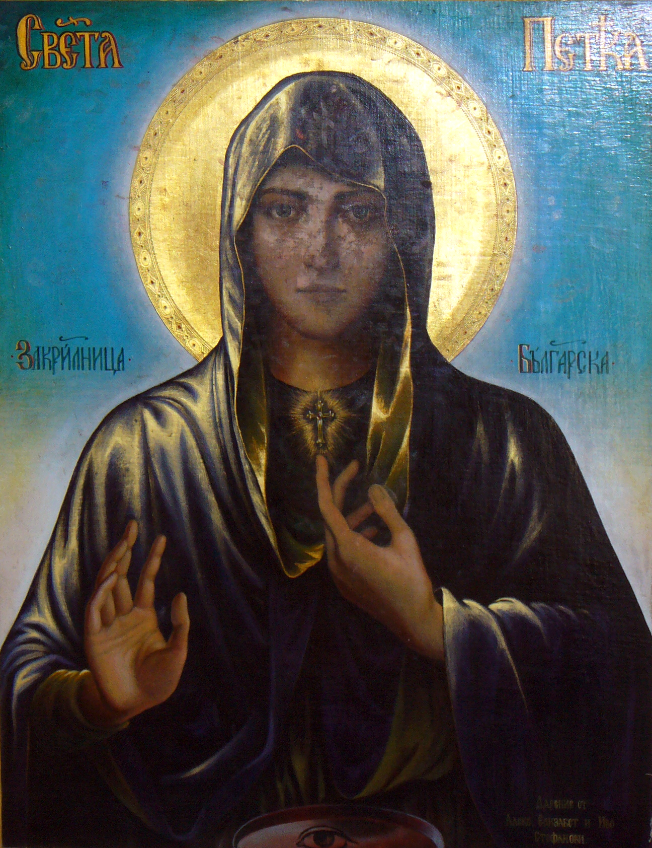 Icon of the patron of church "Saint Petka Bulgarski" in Rupite, Bulgaria